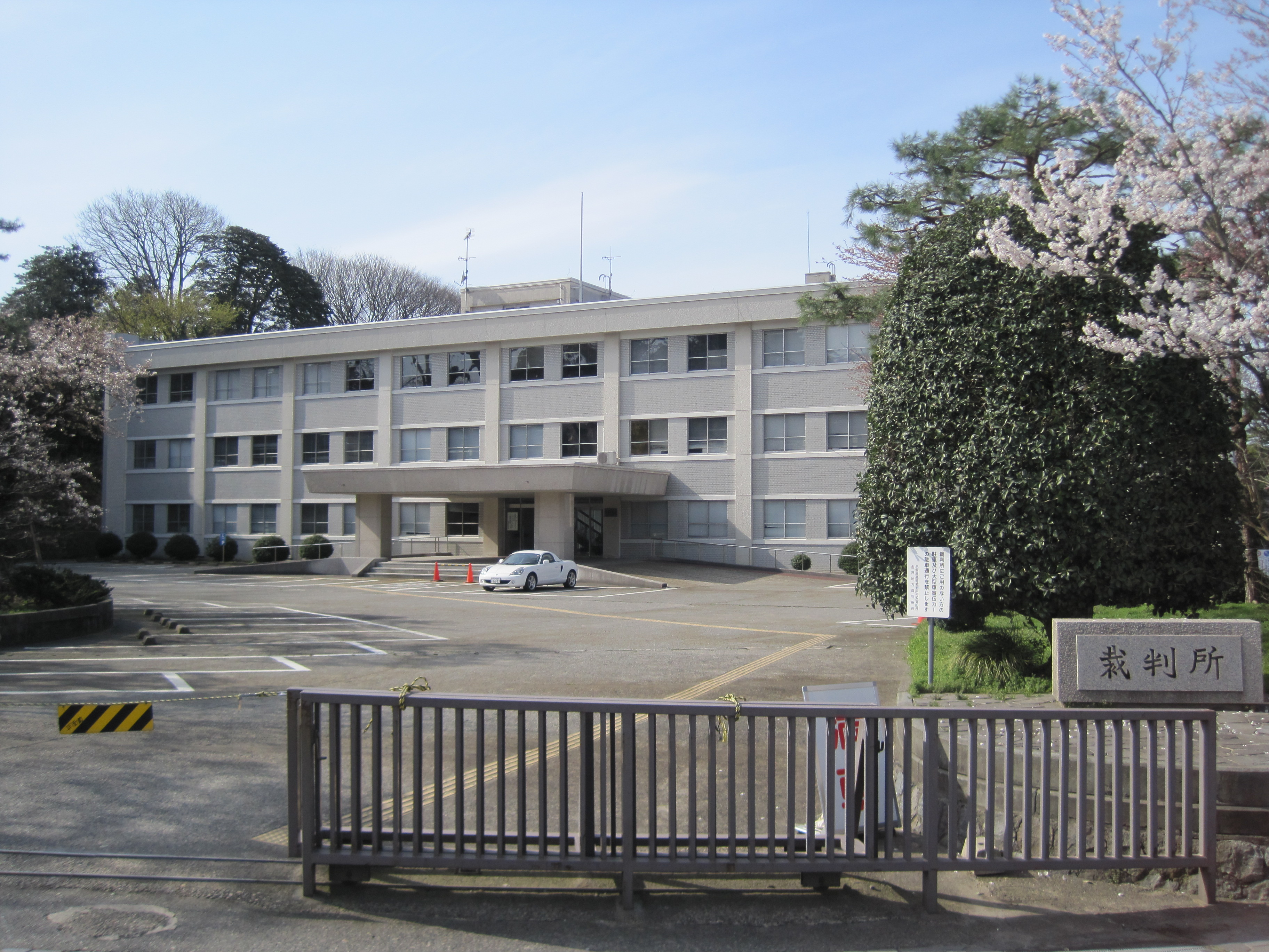 Kanazawa District Court(Kanazawa city,Ishikawa prefecture)